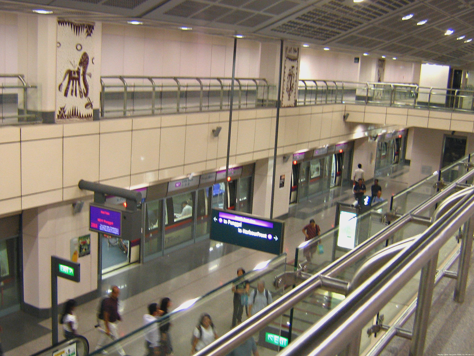 Platform of NE7 Little India Station, North East Line, Singapore